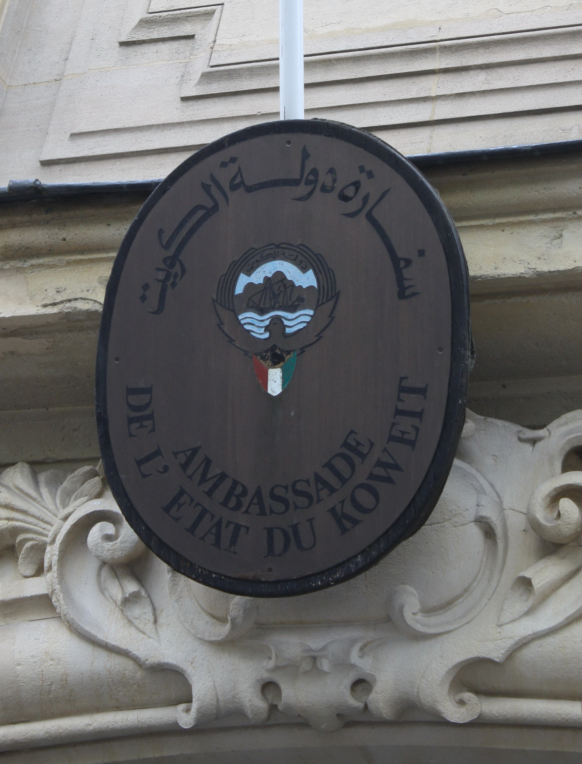 Coat of Arms on Embassy of Kuwait